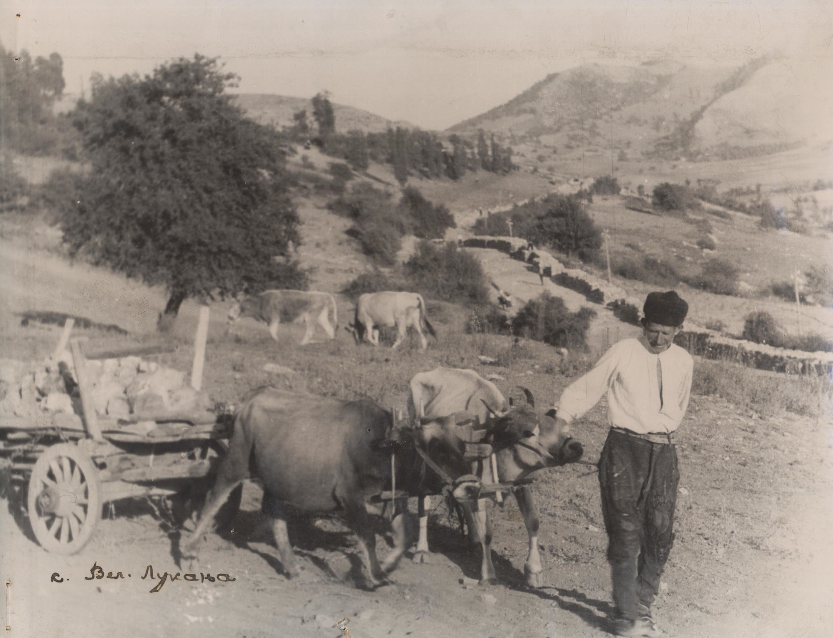 Cattle farmer from the village of Velika Lukanja